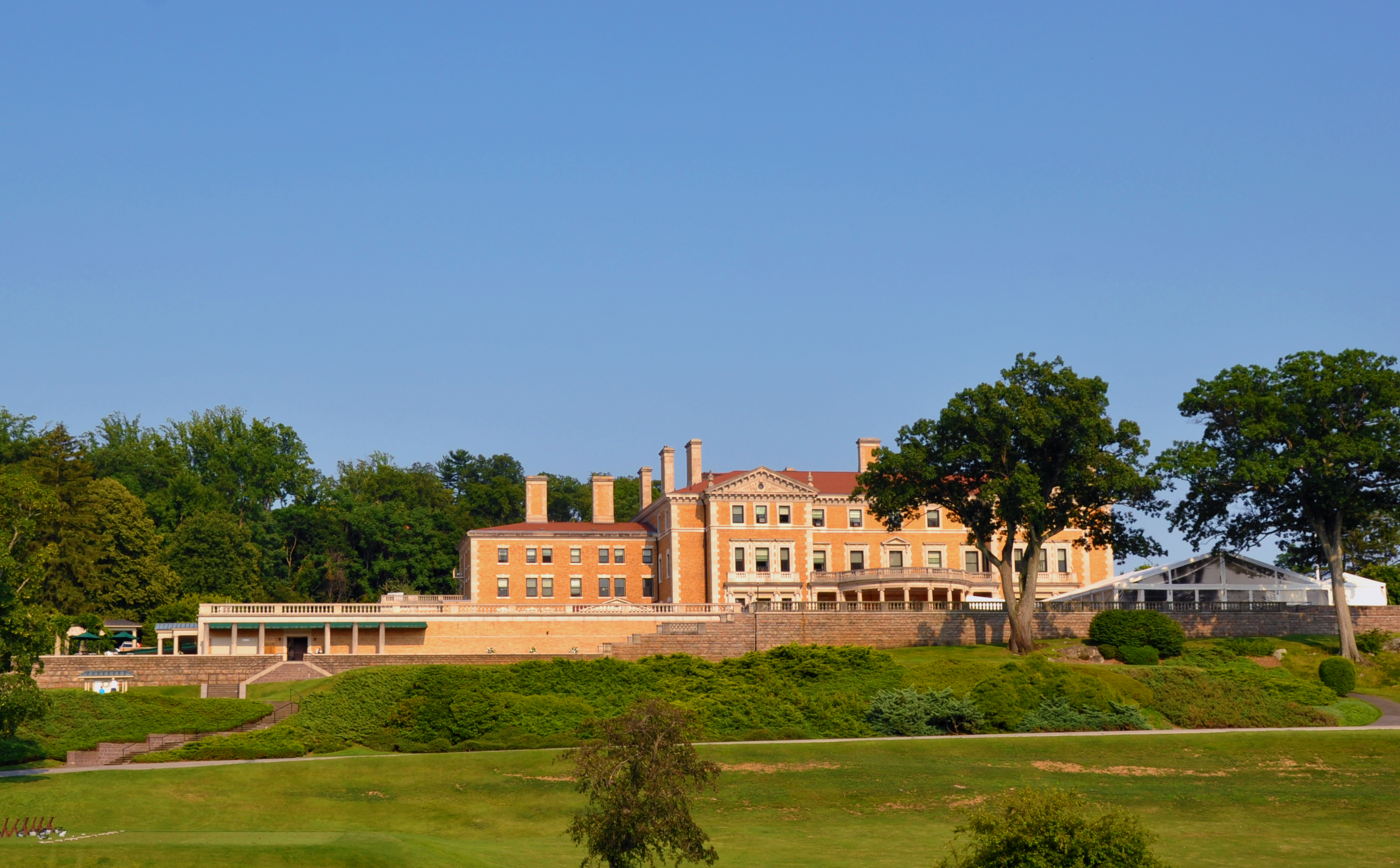 This is an image of Woodlea, the historic mansion in Briarcliff Manor, New York. I took this on June 12, 2014.